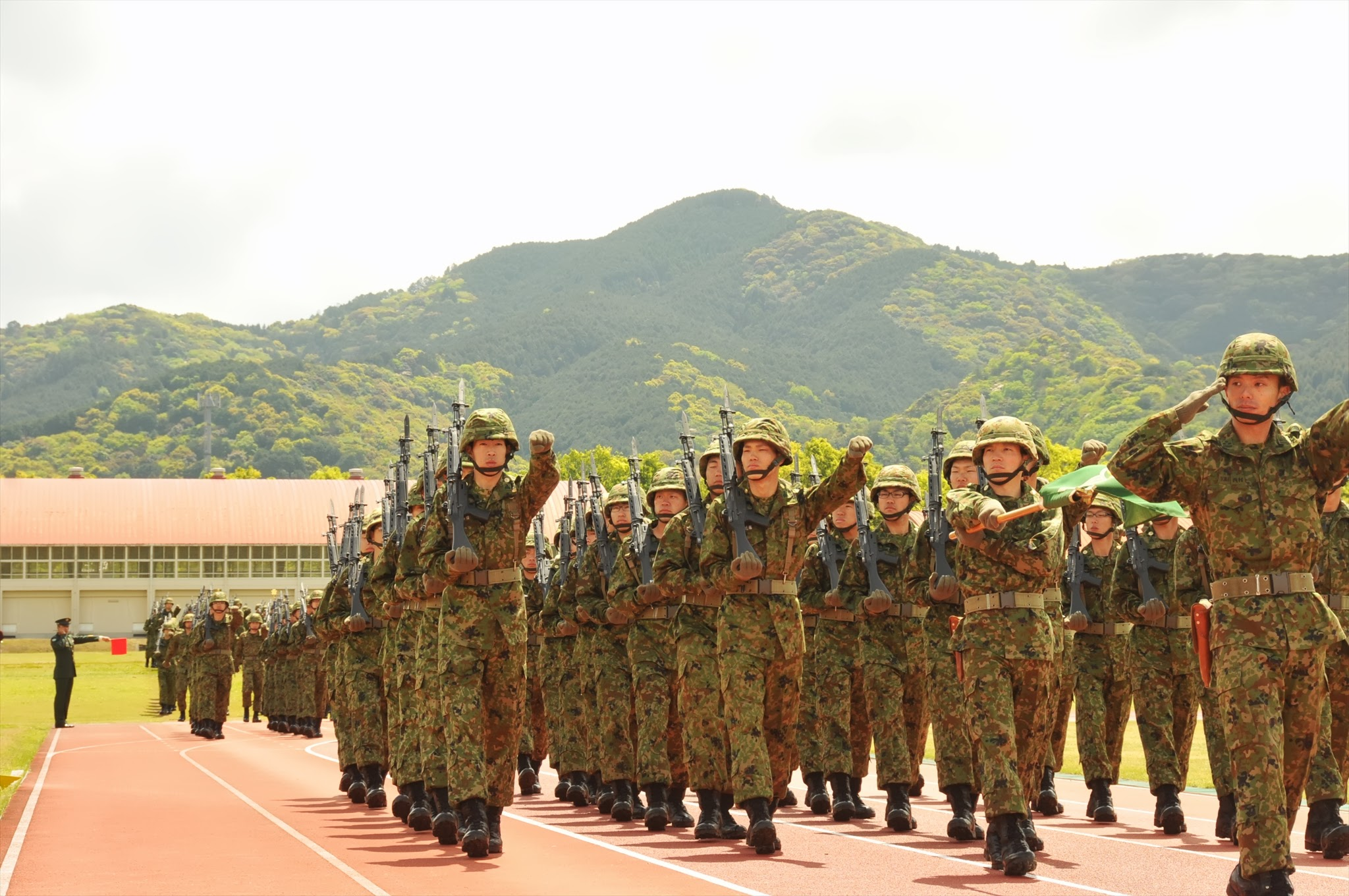 Title 25.04.21 幹候校・幹部候補生学校開校５９周年記念行事(25.6.7受信・吉田1曹)DSC_0672.JPG Album Events and Public Relations (イベント・行事・広報活動等) 幹部候補生学校開校５９周年記念行事（幹部候補生学校・前川原）